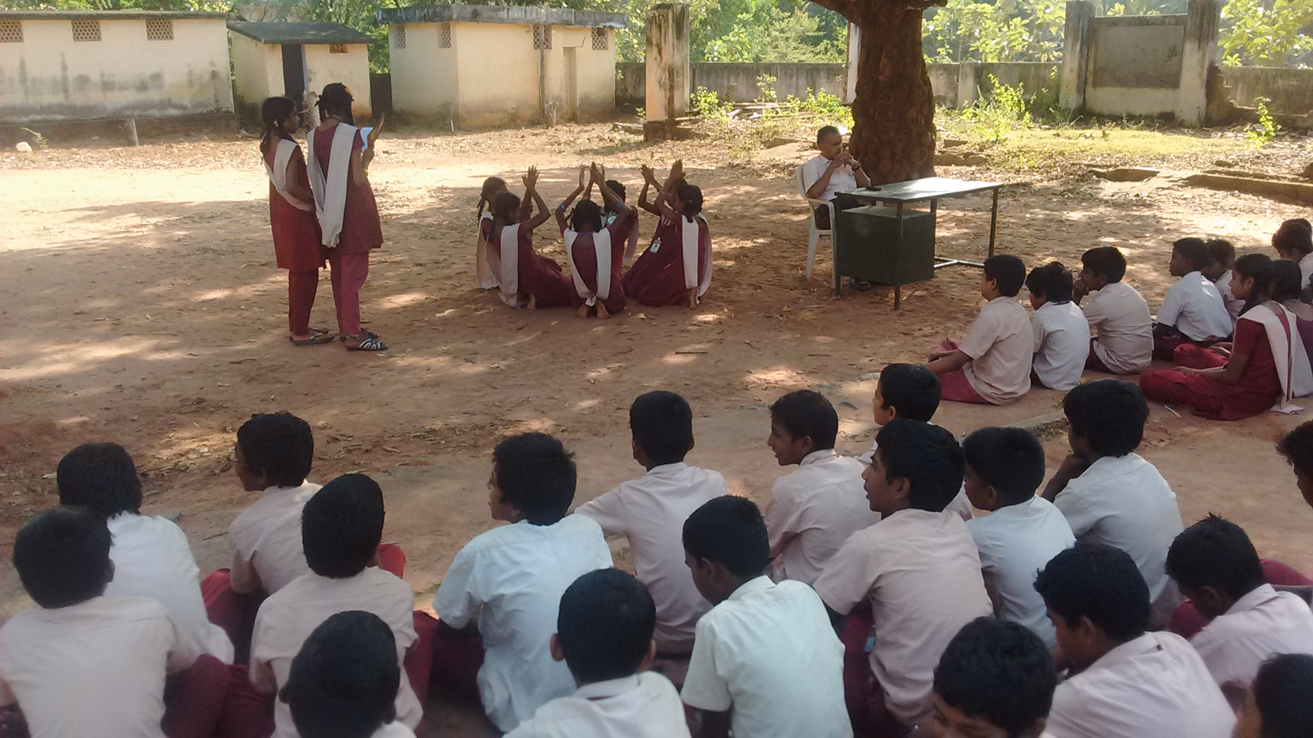 SCIENCE CLUB